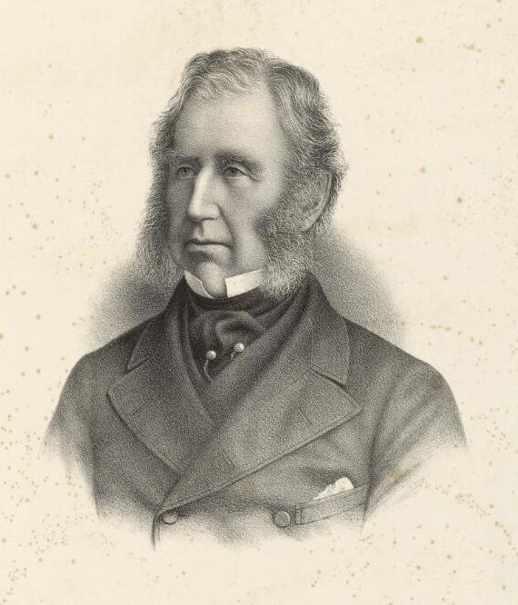 A portrait from the Welsh Portrait Collection at the National Library of Wales. Depicted person: Edward Douglas-Pennant, 1st Baron Penrhyn – British politician